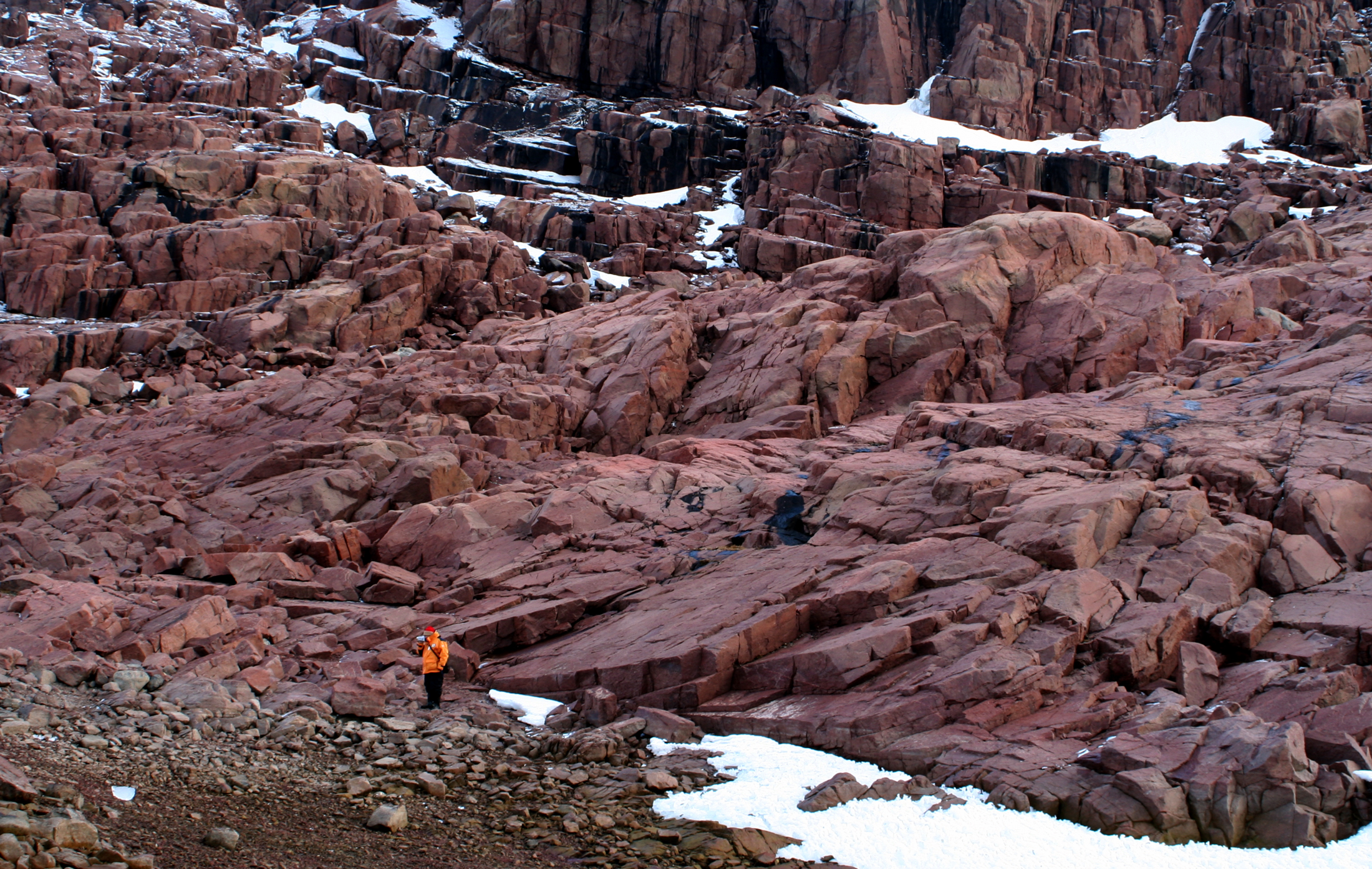 Cape Sabine at Pim Island, Arctica, where famous polar explorer Adolphus Greely waited to be rescued. By the time the ships arrived on June 22, 1884 to rescue the expedition 19 of Greely's 25-man crew had perished from starvation, drowning, hypothermia, and in one case, gunshot wounds from an execution ordered by Greely.